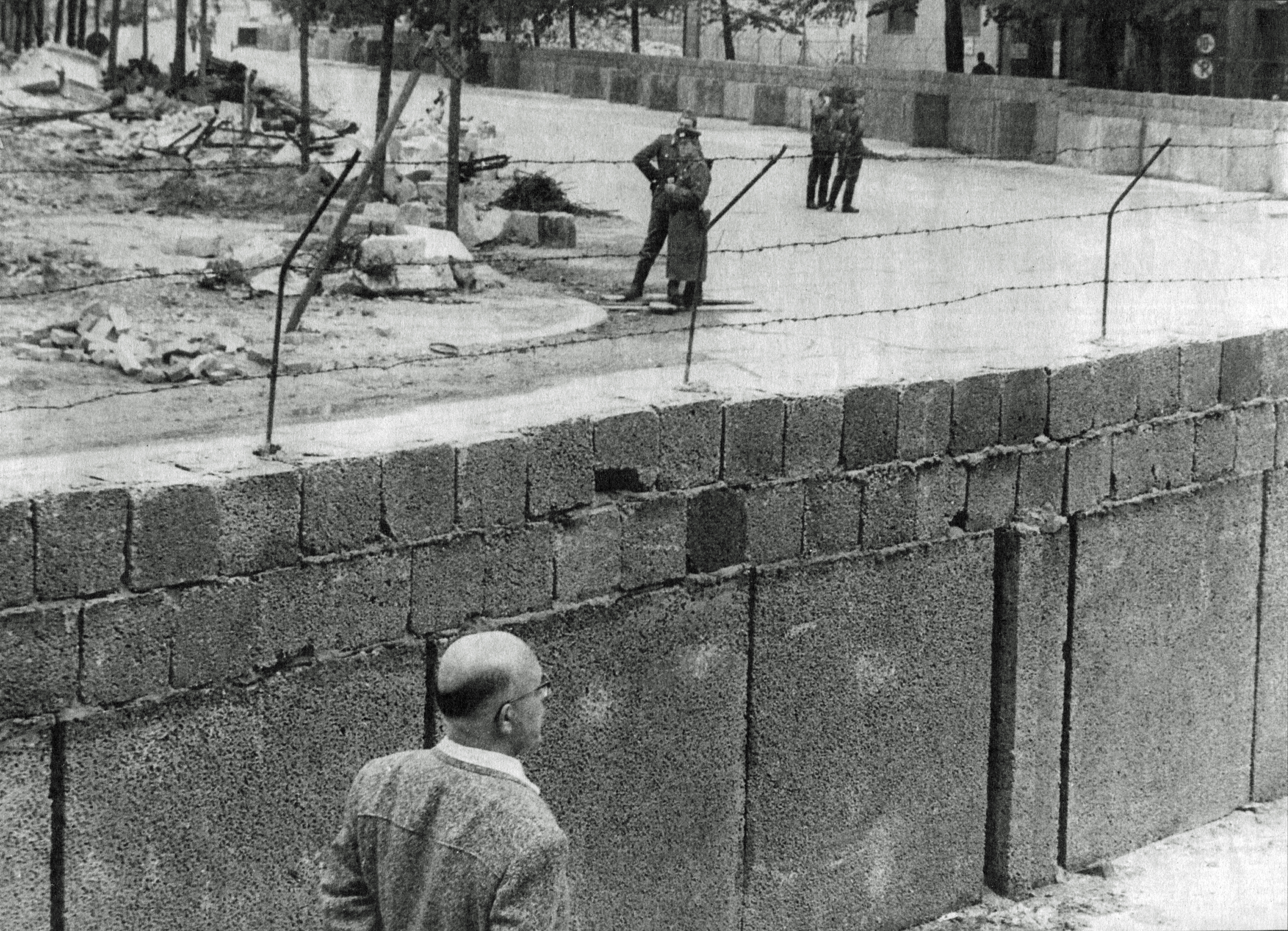 The Berlin wall in 1961.